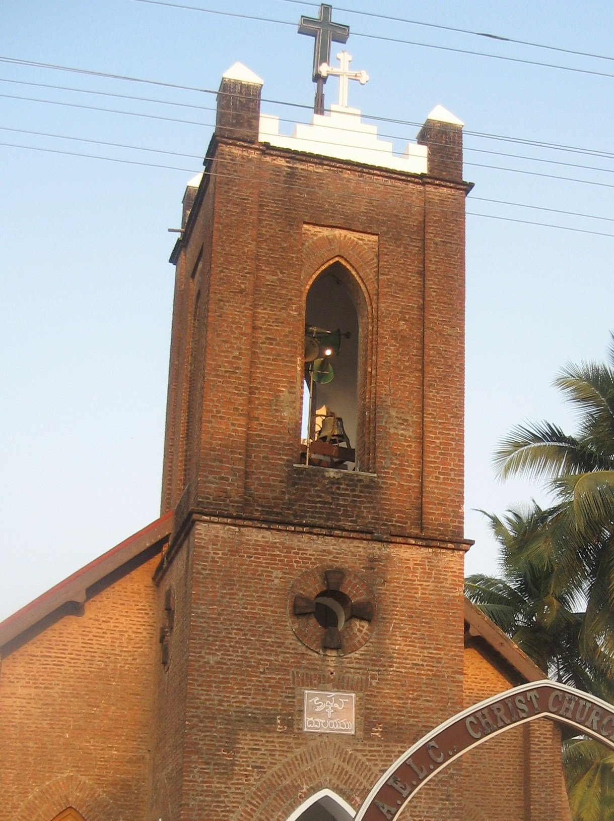 own work